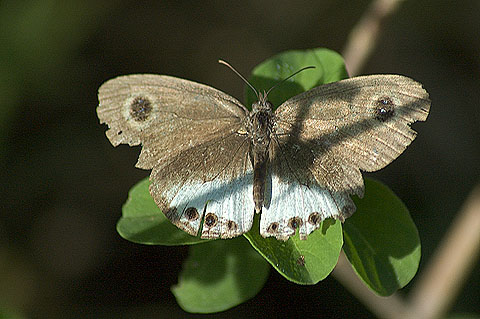 White Fourring upperside photographed in Mangarai, Anaikatty, Coimbatore, Tamilnadu, India.